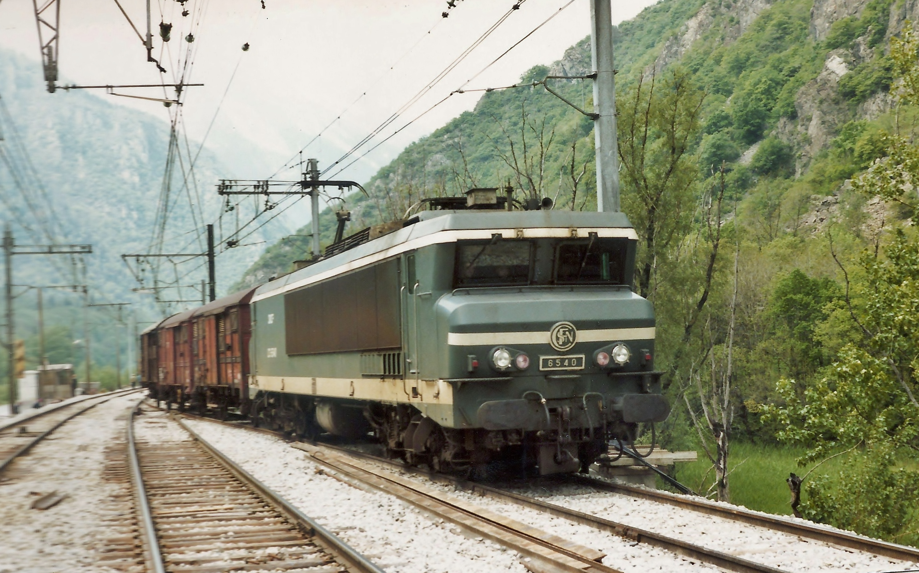 Sight of Class SNCF CC 6540 (Maurienne) with a freight train, leaving the Maurienne line and entering the évitement de Pontamafrey passing loop, in Savoie, France.Picture taken the day of the annual opening for tests, in June.